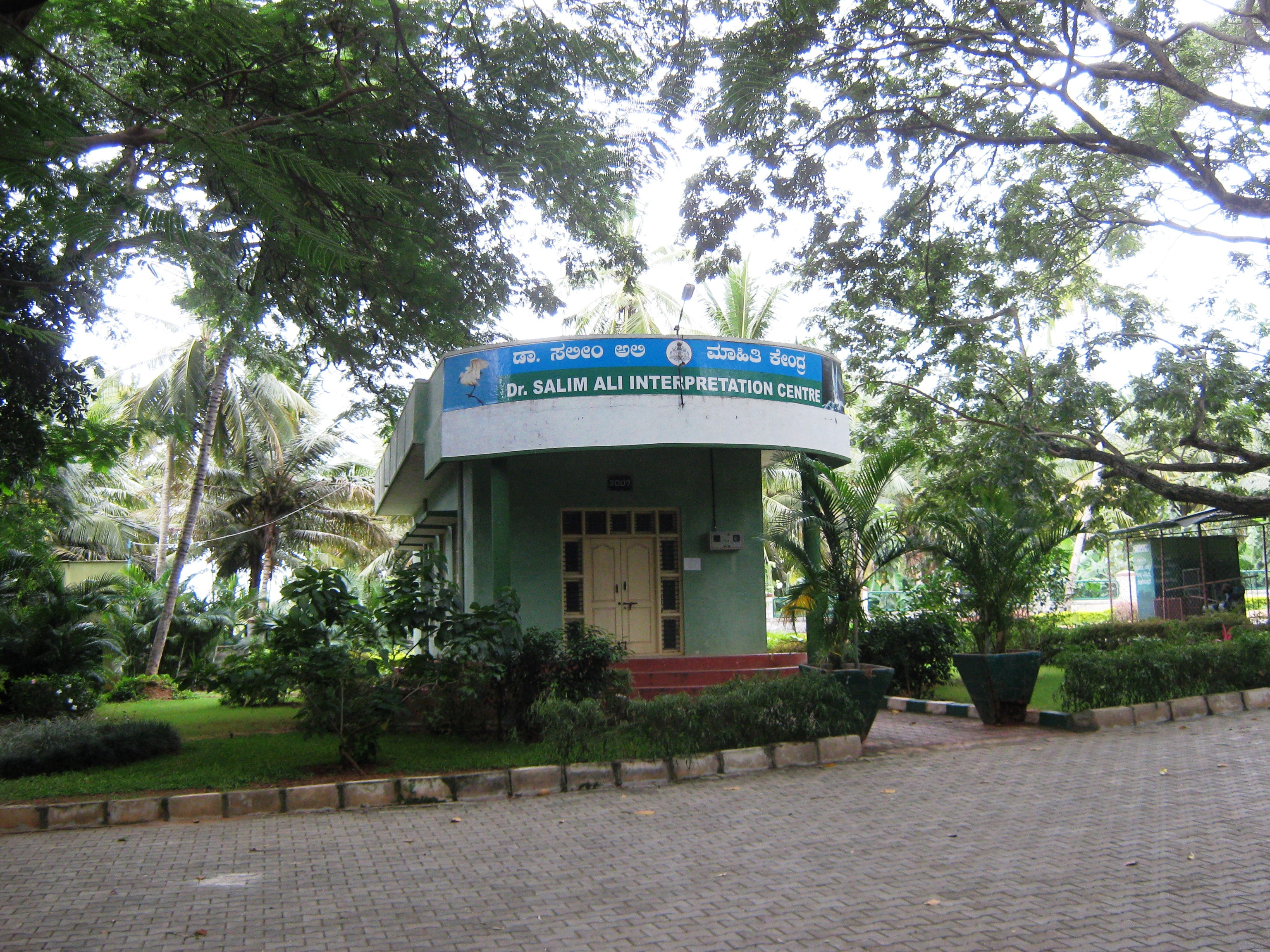 Mysore, India